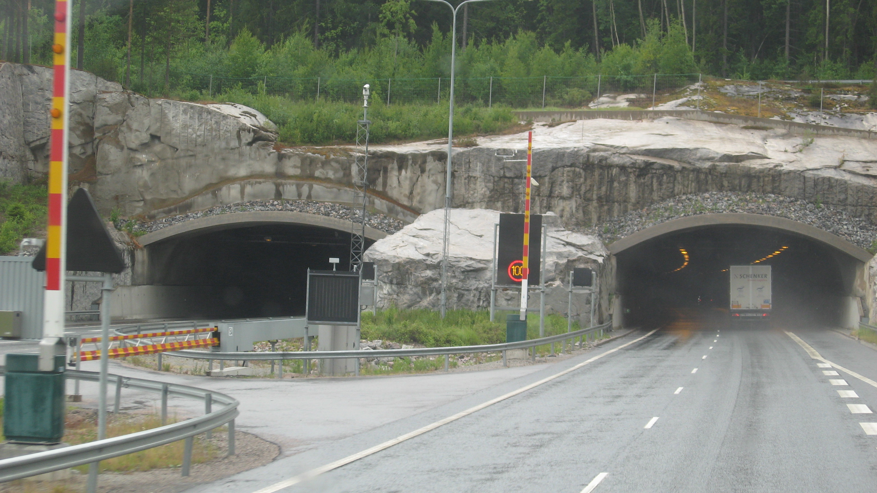 Isokylä tunnel on highway 1 (E18) in Isokylä village, Salo, Finland.